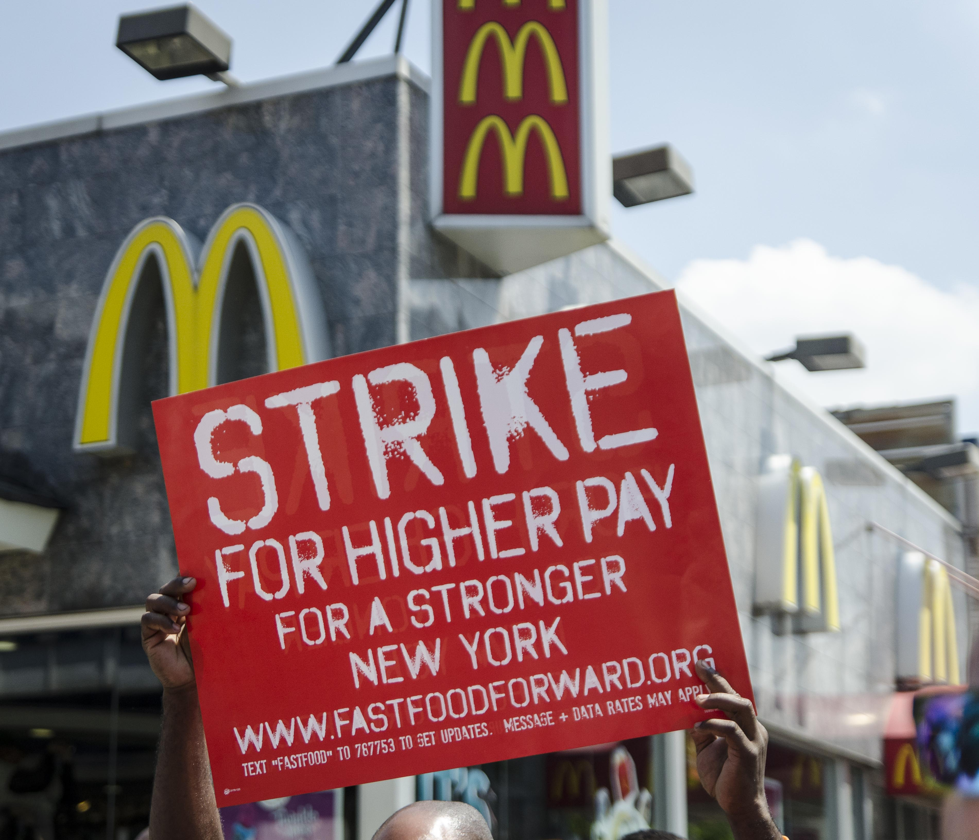 July 29, 2013 protest at McDonald's in New York City. Photo by Annette Bernhardt